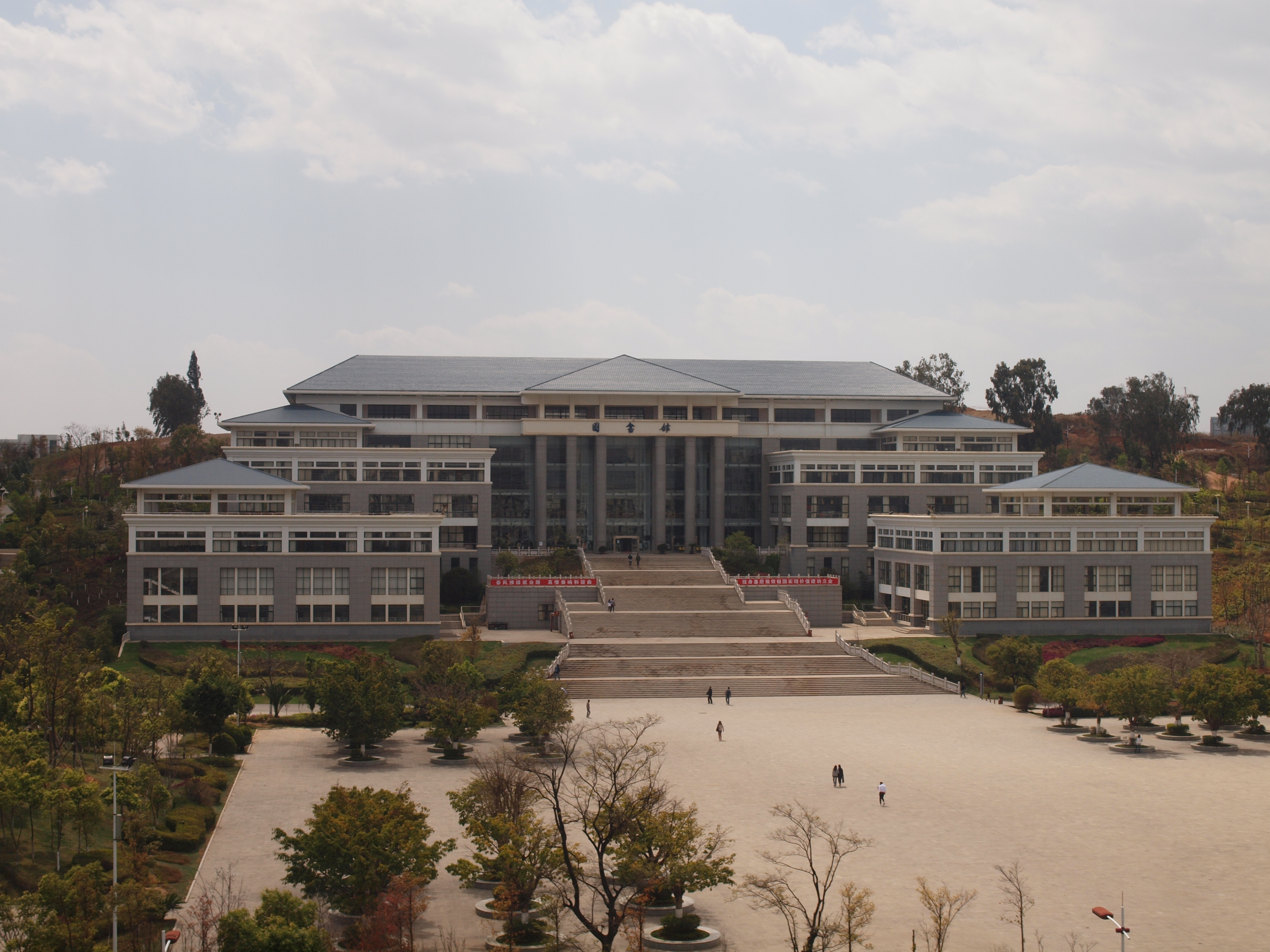 Library of the Kunming University